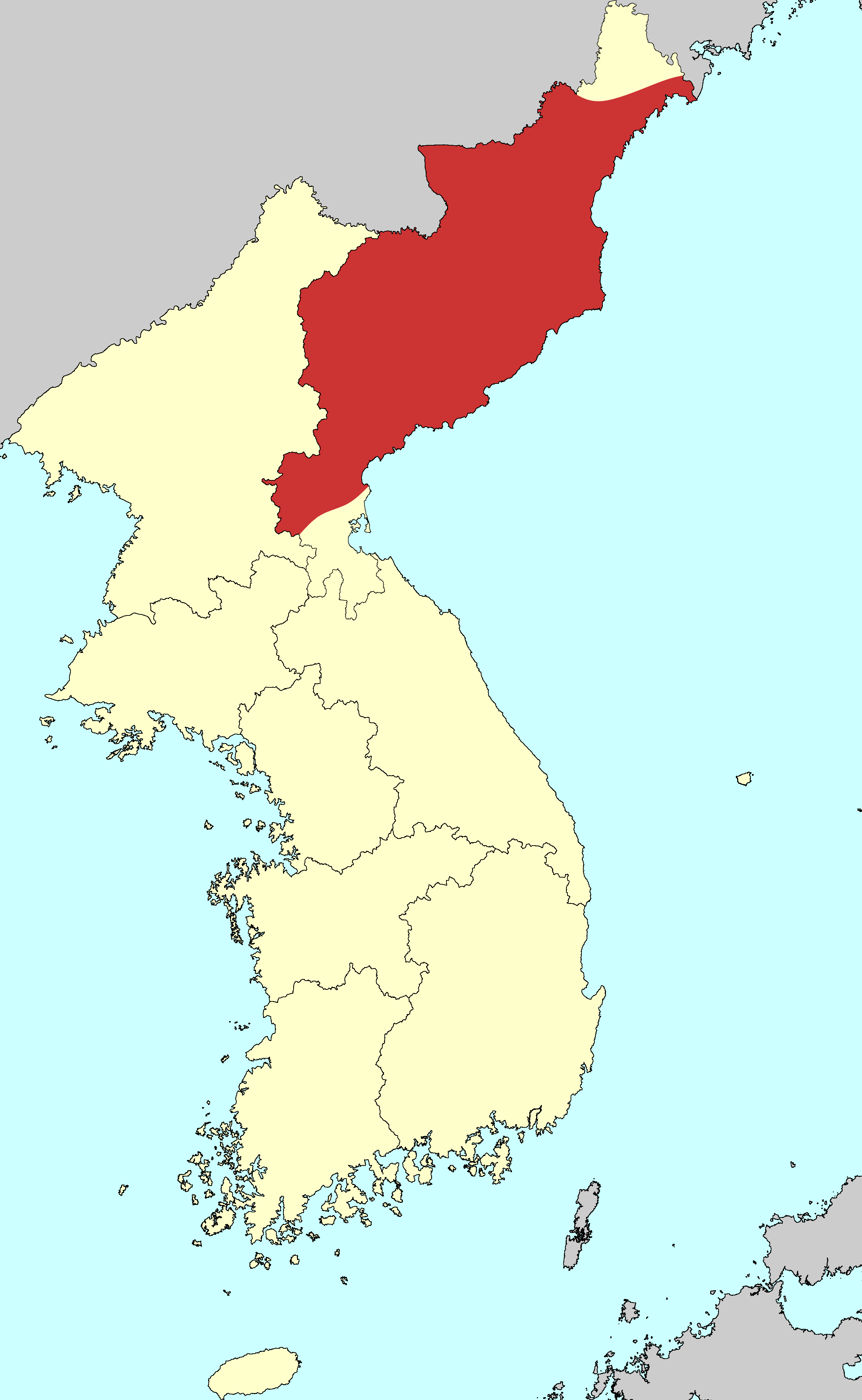 Distribution of the Hamgyŏng dialect, per Kwak 1998. Base map in Commons